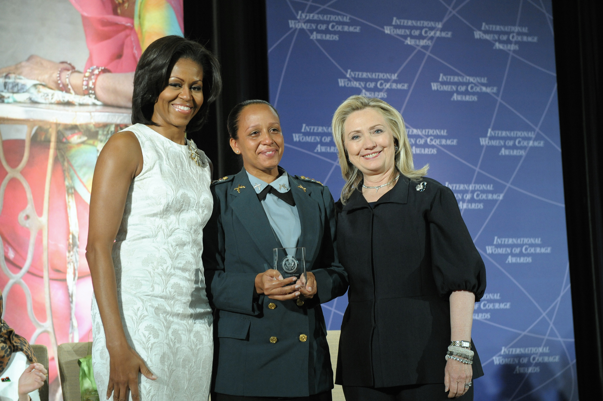 Pricilla de Oliveira Azevedo with Michelle Obama and Hillary Clinton